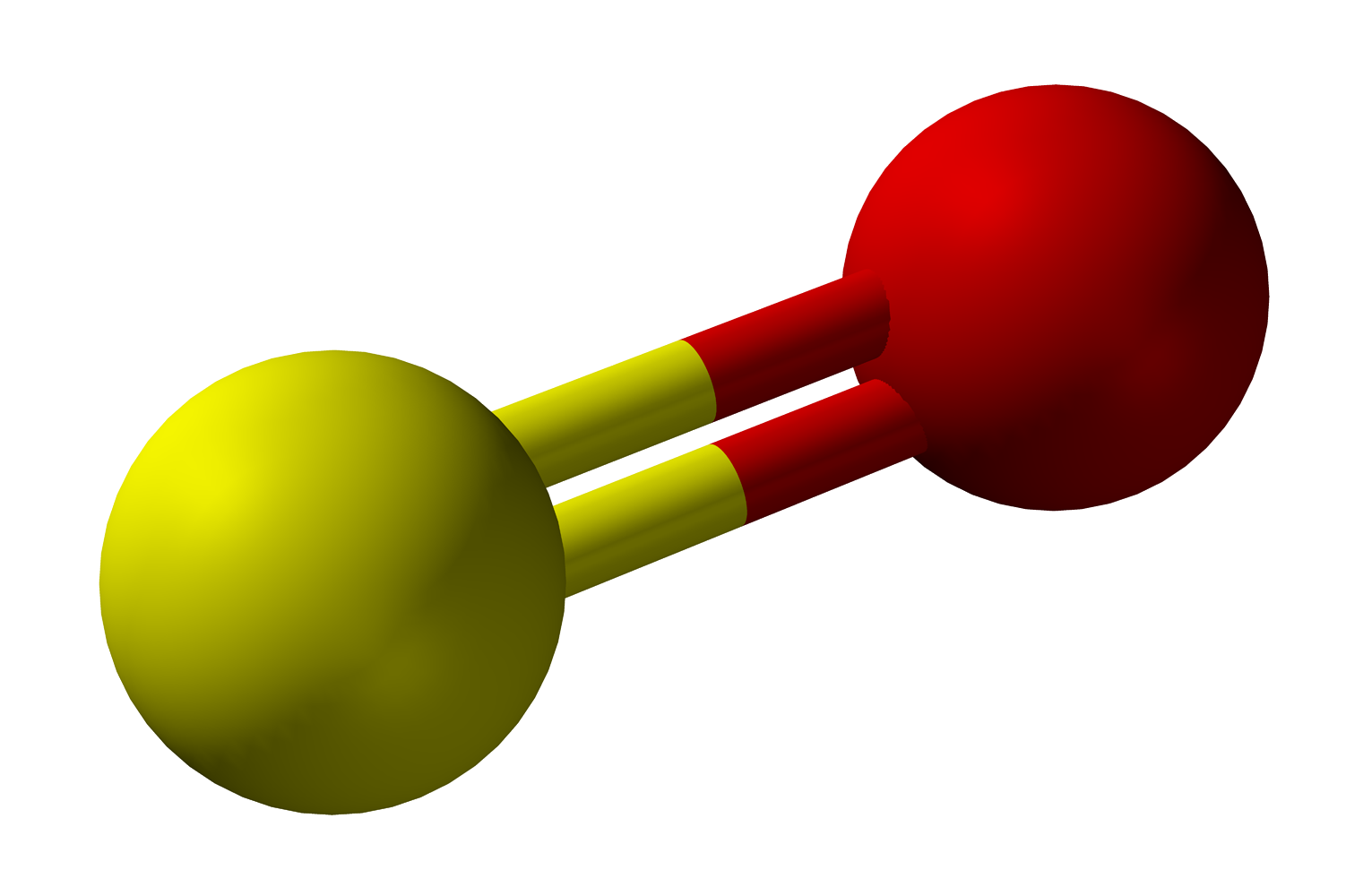 Ball-and-stick model of the sulfur monoxide molecule, SO. Structural data from ISBN 4-06-153365-7.